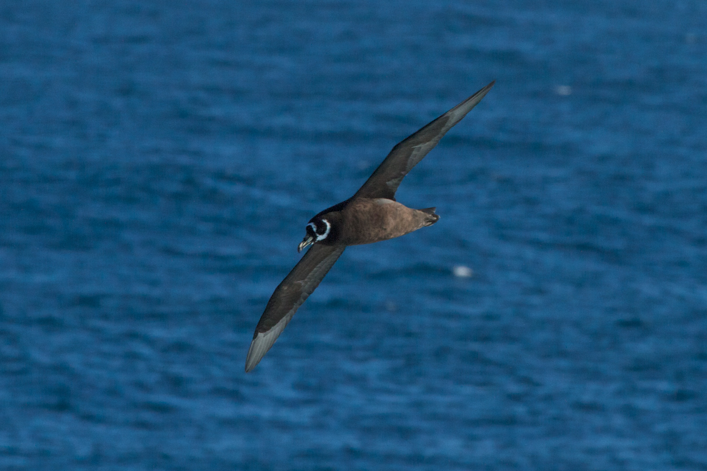 The Spectacled Petrel is a member of the Procellaria genus, and in turn is a member of the Procellariidae family, and the Procellariiformes order. As a member of the Procellariiformes, they share certain identifying features. First, they have nasal passages that attach to the upper bill called naricorns. Although the nostrils on the Prion are on top of the upper bill. The bills of Procellariiformes are also unique in that they are split into between 7 and 9 horny plates. They produce a stomach oil made up of wax esters and triglycerides that is stored in the proventriculus. This is used against predators as well as an energy rich food source for chicks and for the adults during their long flights.Finally, they also have a salt gland that is situated above the nasal passage and helps desalinate their bodies, due to the high amount of ocean water that they imbibe. It excretes a high saline solution from their nose. In 2004, BirdLife International split the Spectacled Petrel, Procellaria conspicillata, from the White-chinned Petrel, Procellaria aequinoctialis, which had been considered conspecific or even a color morph.